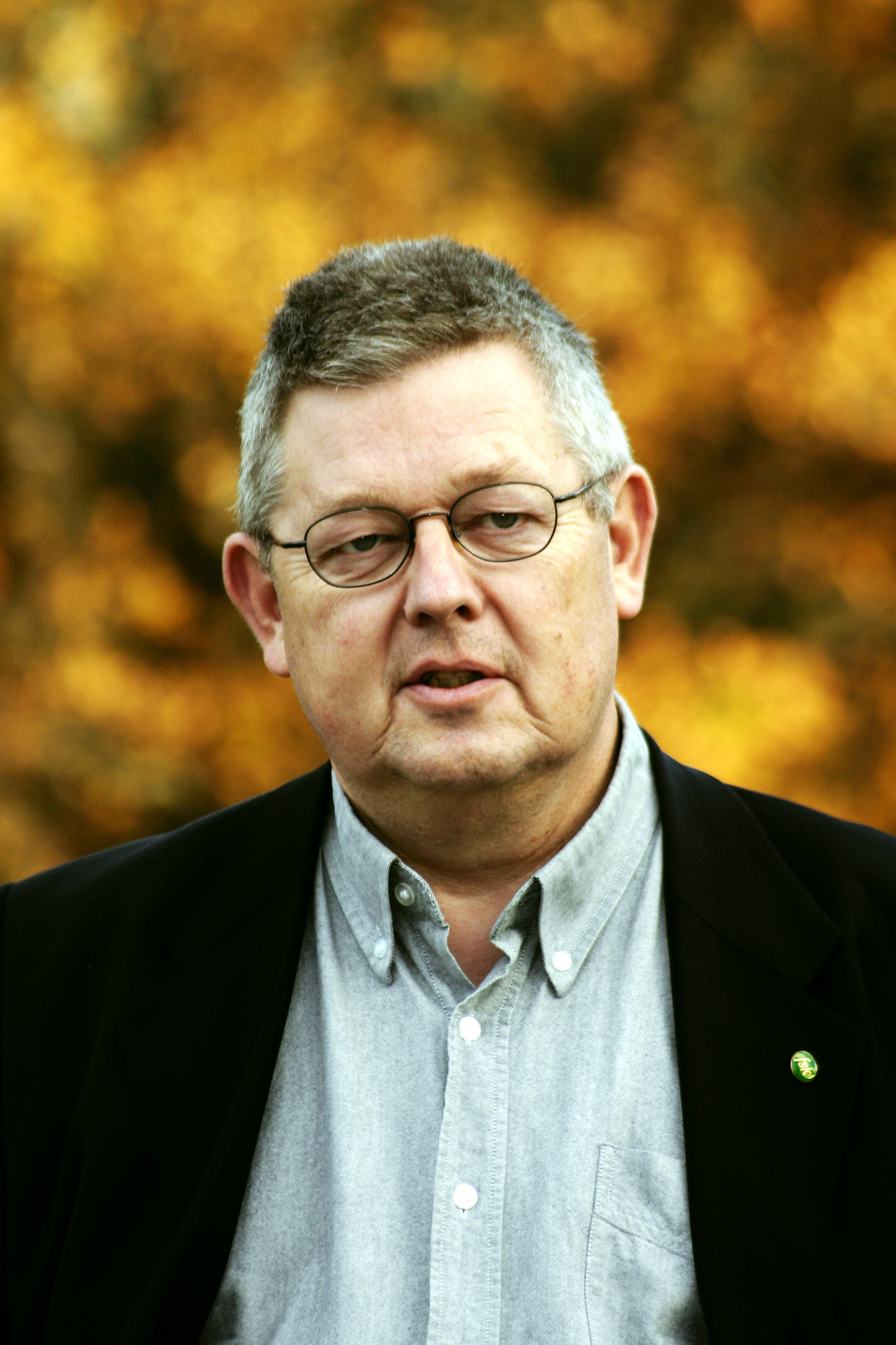 Image of Hans Lundgren (conductor)